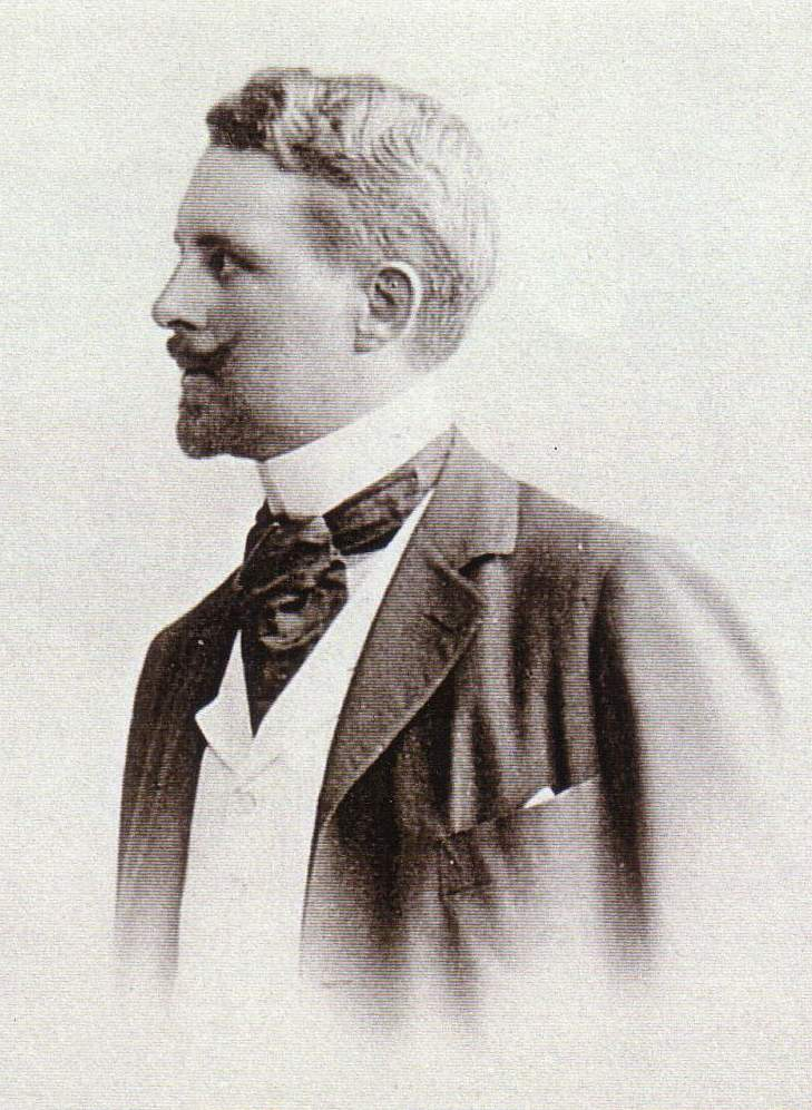 Thomas von Nathusius, German animal painter from 19th century